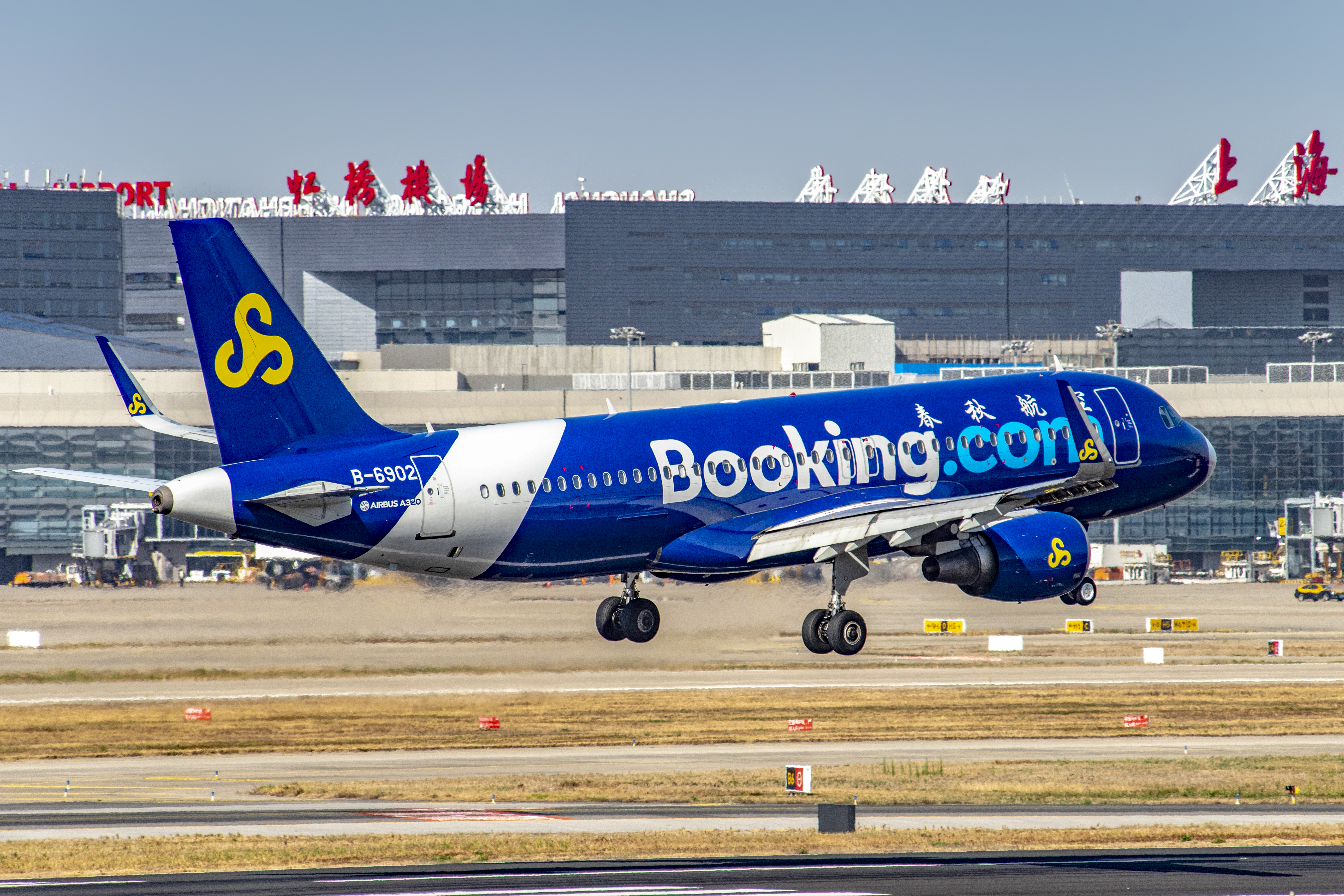 Air Spring 8822 from Qingdao, with advertisement.